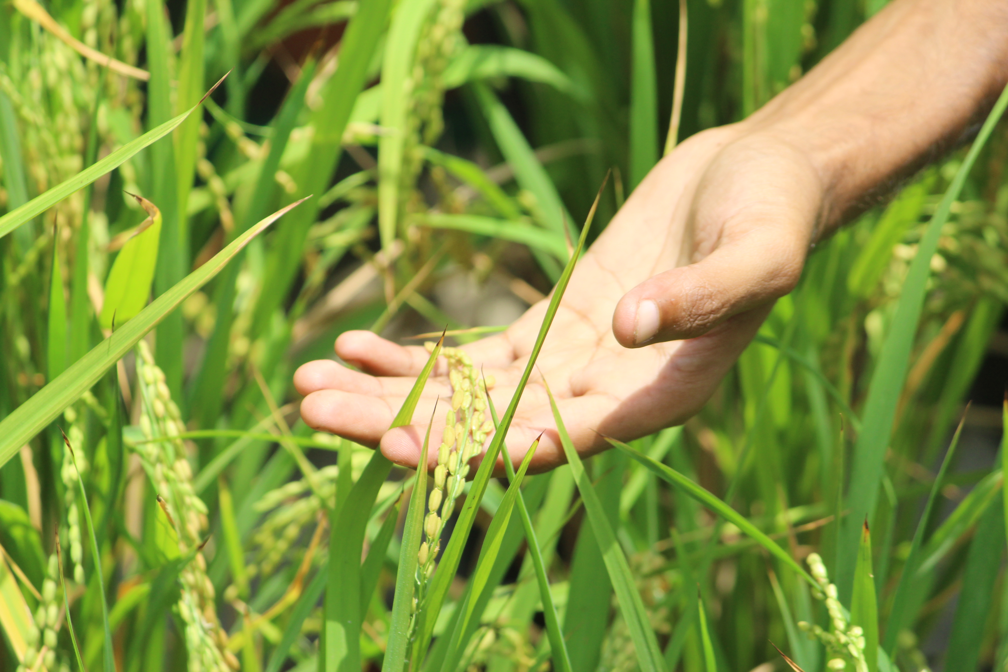 Human Hand touching paddy grains